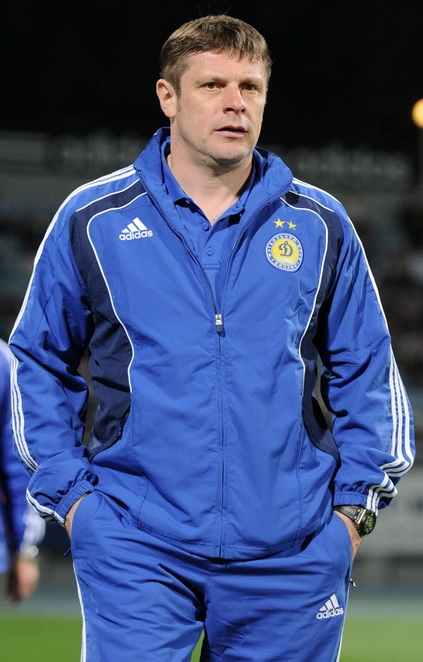 Oleh Luzhny